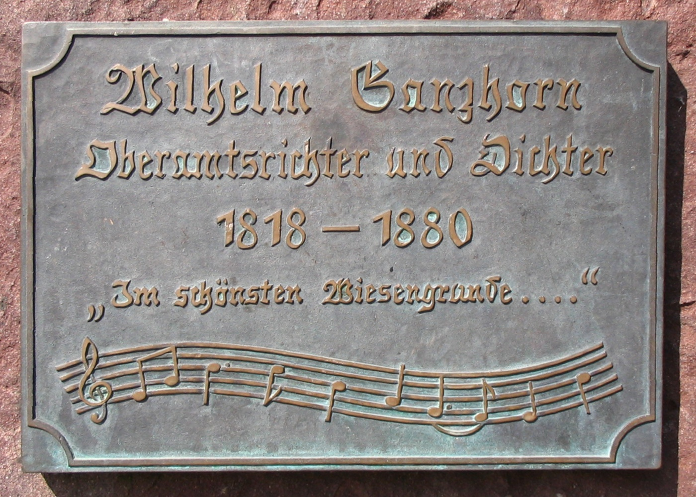 Memorial tablet at the Wilhelm-Ganzhorn-Brunnen (fountain) in Straubenhardt, Germany